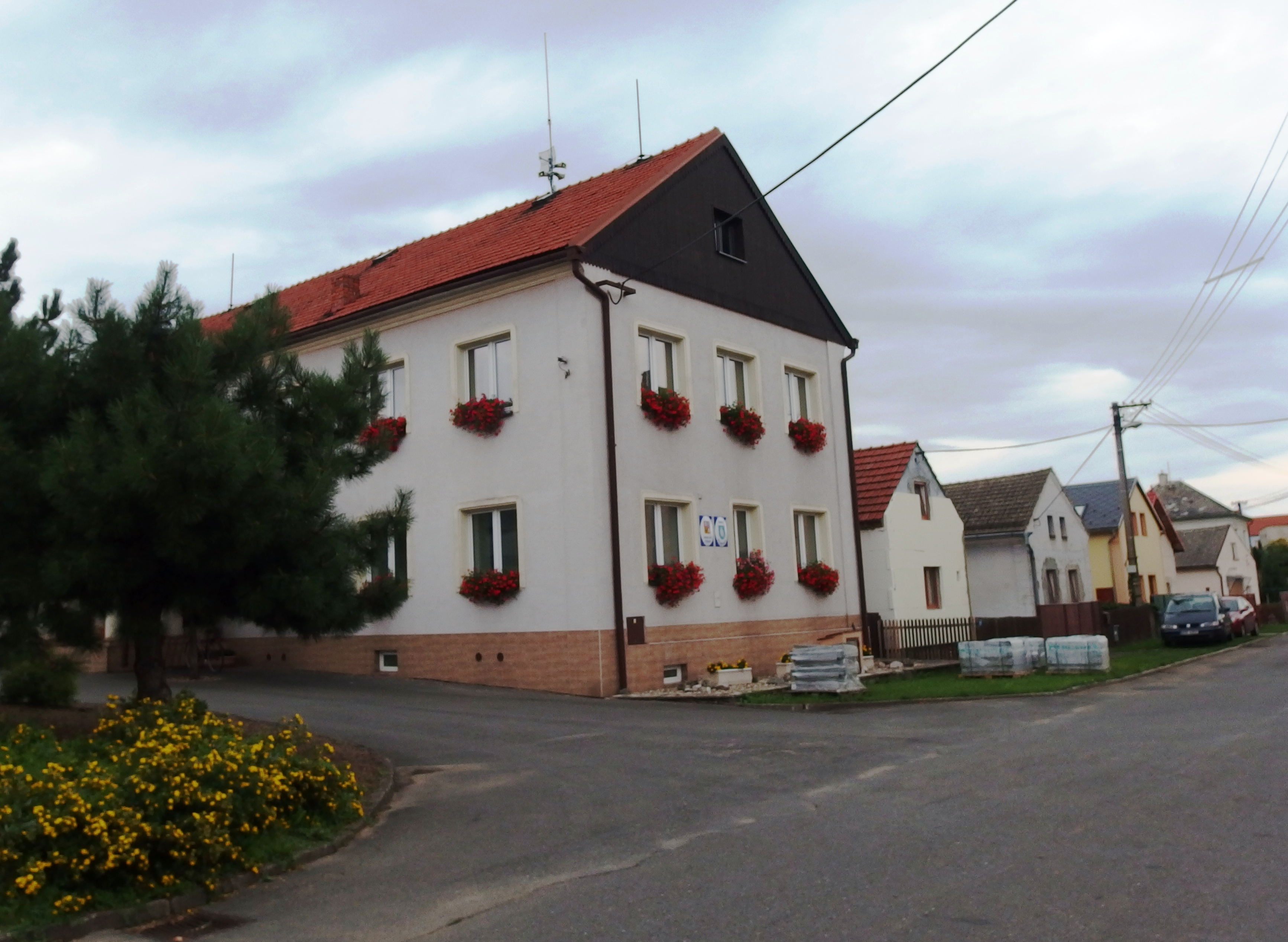 Oldřišov, Opava District, Czech Republic.